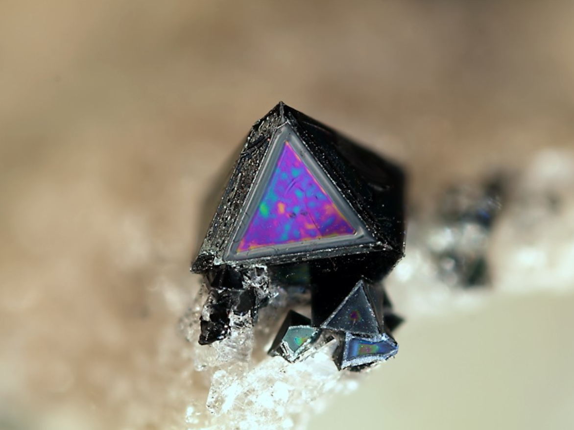 Hercynite (Image width: 5 mm) Locality: In den Dellen quarries, Niedermendig, Mendig, Laach lake volcanic complex, Eifel, Rhineland-Palatinate, Germany